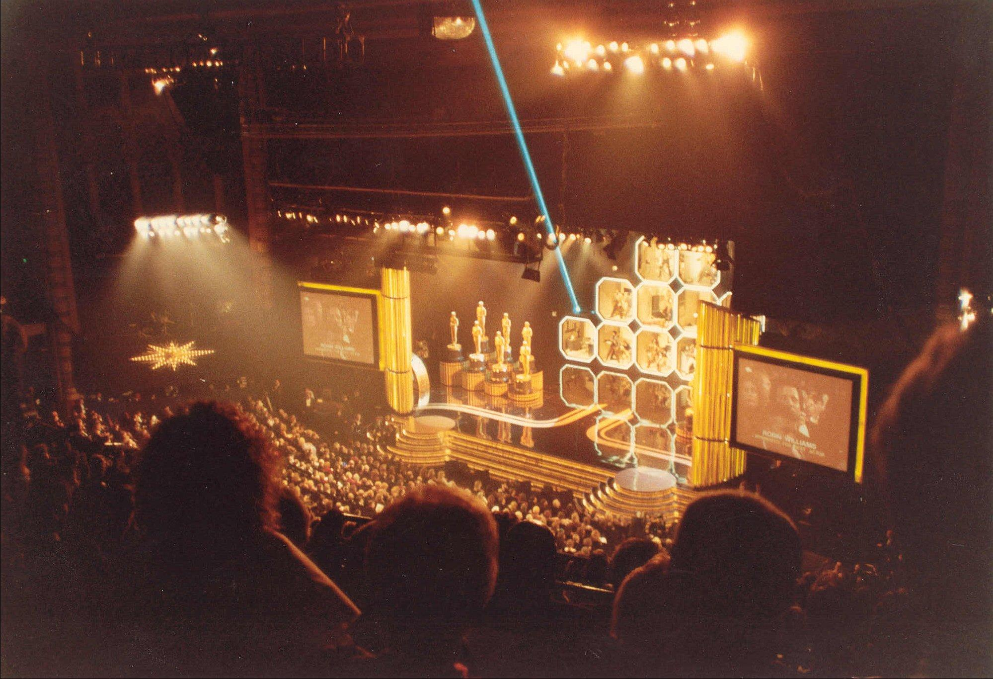 Oscars from our seats in balcony — 1988 Annual Academy Awards, in the Shrine Civic Auditorium, Los Angeles.